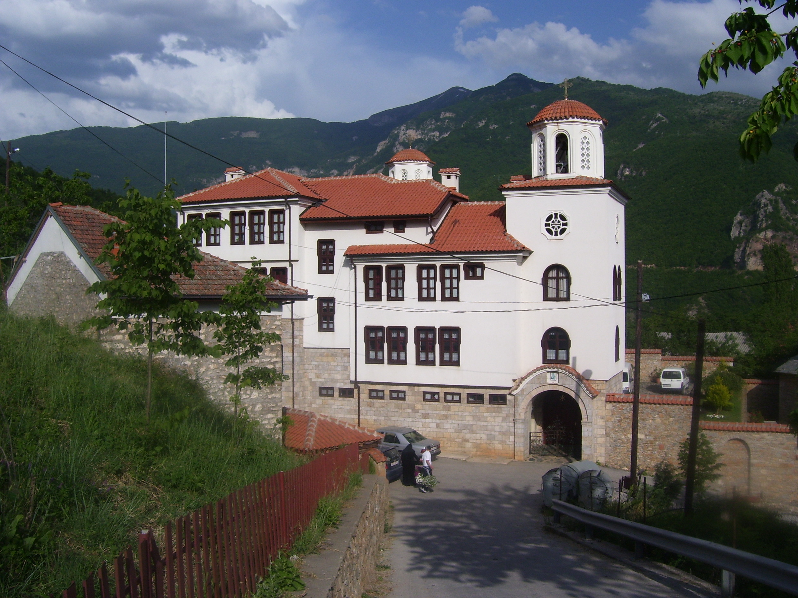 St George Monastery in the village of Rajčica, Macedonia